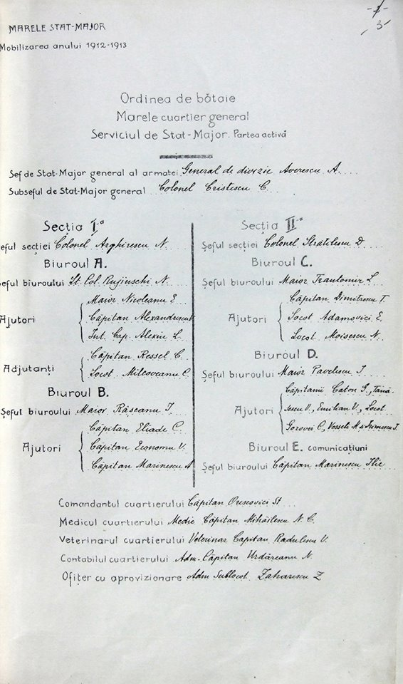 Organization of the Romanian Supreme Headquarters during the Second Balkan War, 1913